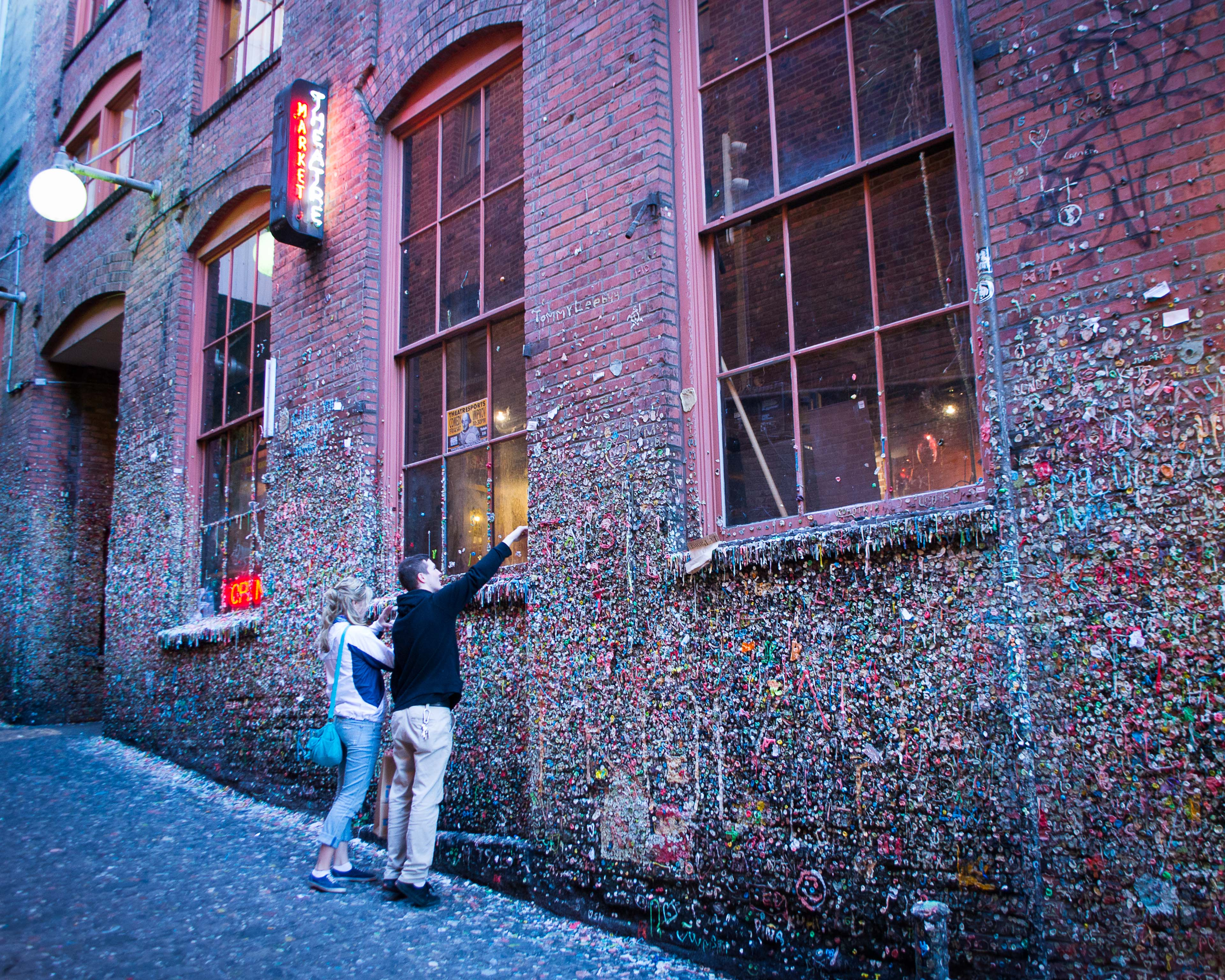 The Market Theater gum wall in Seattle's Post Alley